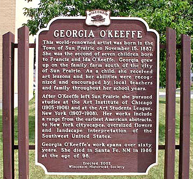 a sign commemorating birth of Georgia O'Keeffe, located next to Sun Prairie City Hall, 300 E, Main Street